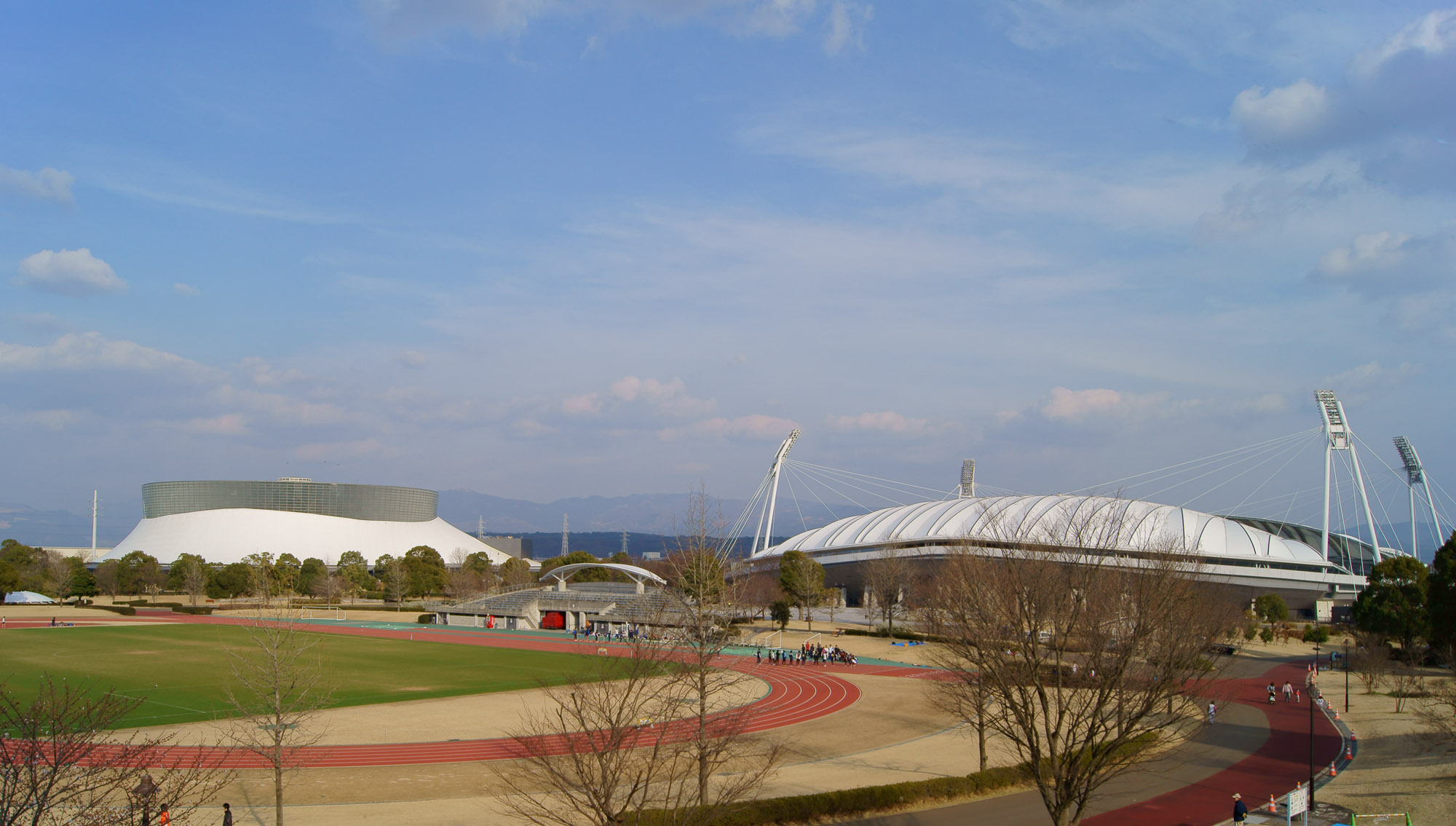 (right to left) Main stadium aka KKWING, supplemental track, the Park Dome of Kumamoto prefectural sports park, Japan.